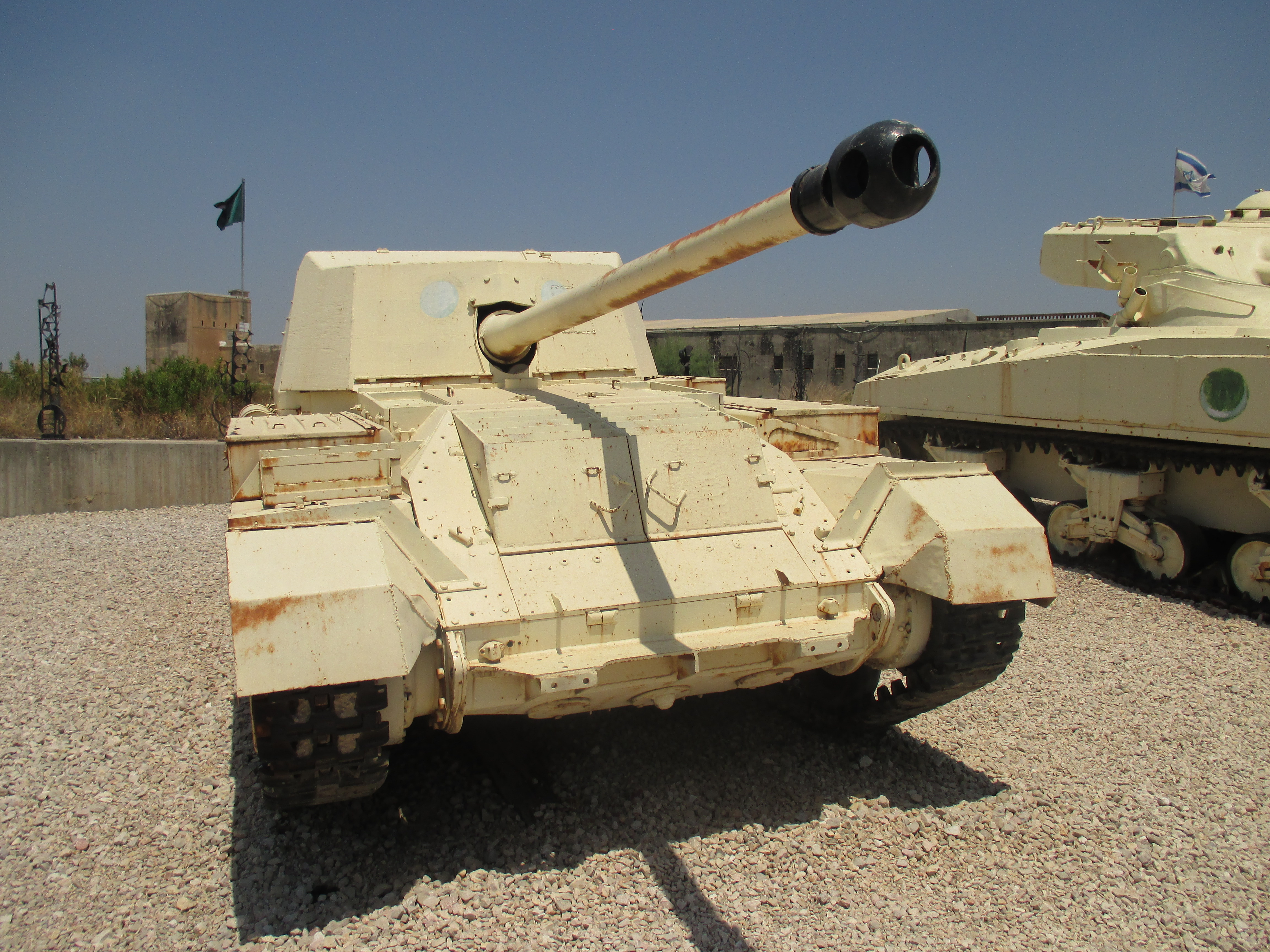 Description: Valentine Archer tank destroyer at the Israeli Armored Corps Museum, Latrun.